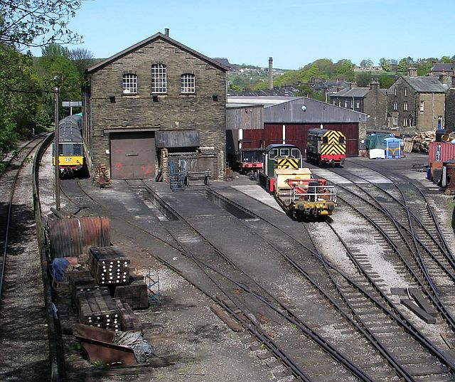 Station Yard - Haworth